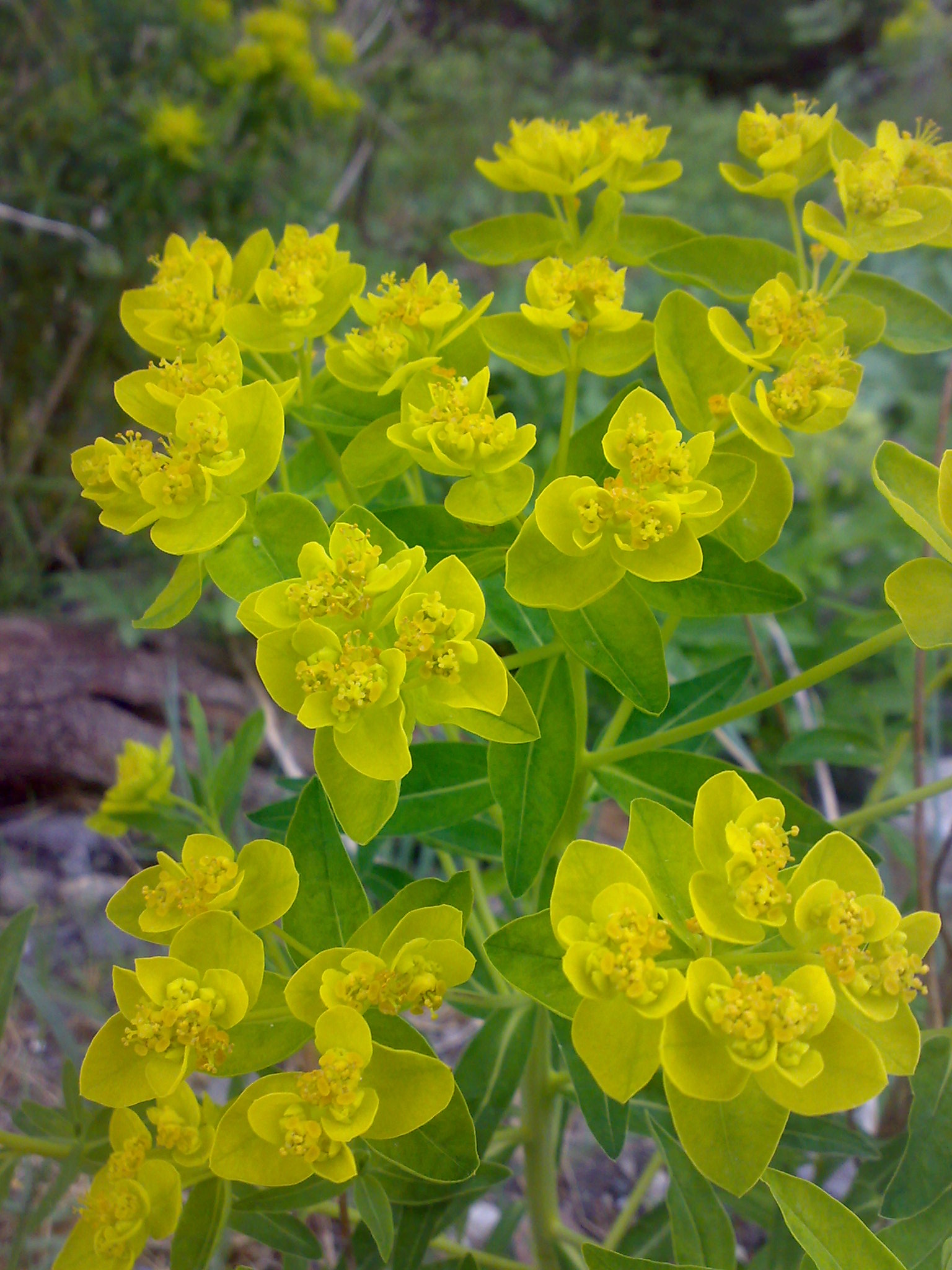 Euphorbia palustris Strandvortemelk